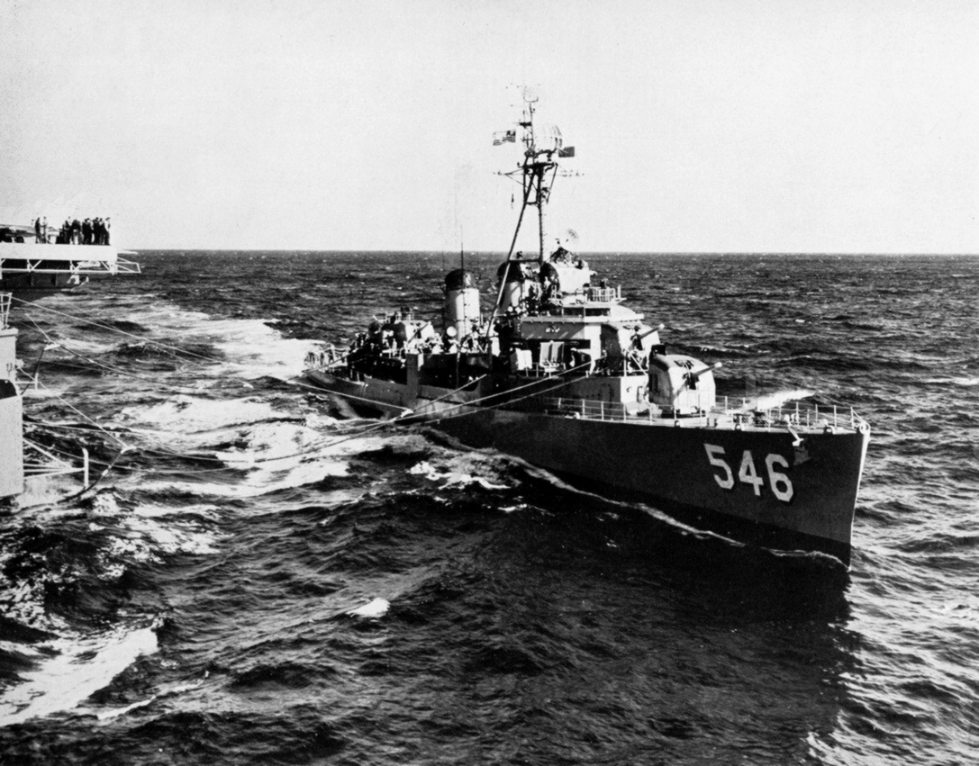 The U.S. Navy destroyer USS Brown (DD-546) refueling from the aircraft carrier USS Hornet (CVA-12). Hornet, with assigned Air Task Group 4 (ATG-4), was deployed to the Western Pacific from 6 January to 2 July 1958.